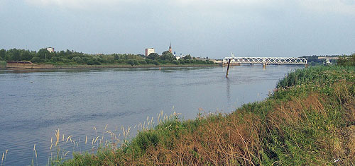 The Rupel River between Niel and Boom, Belgium.